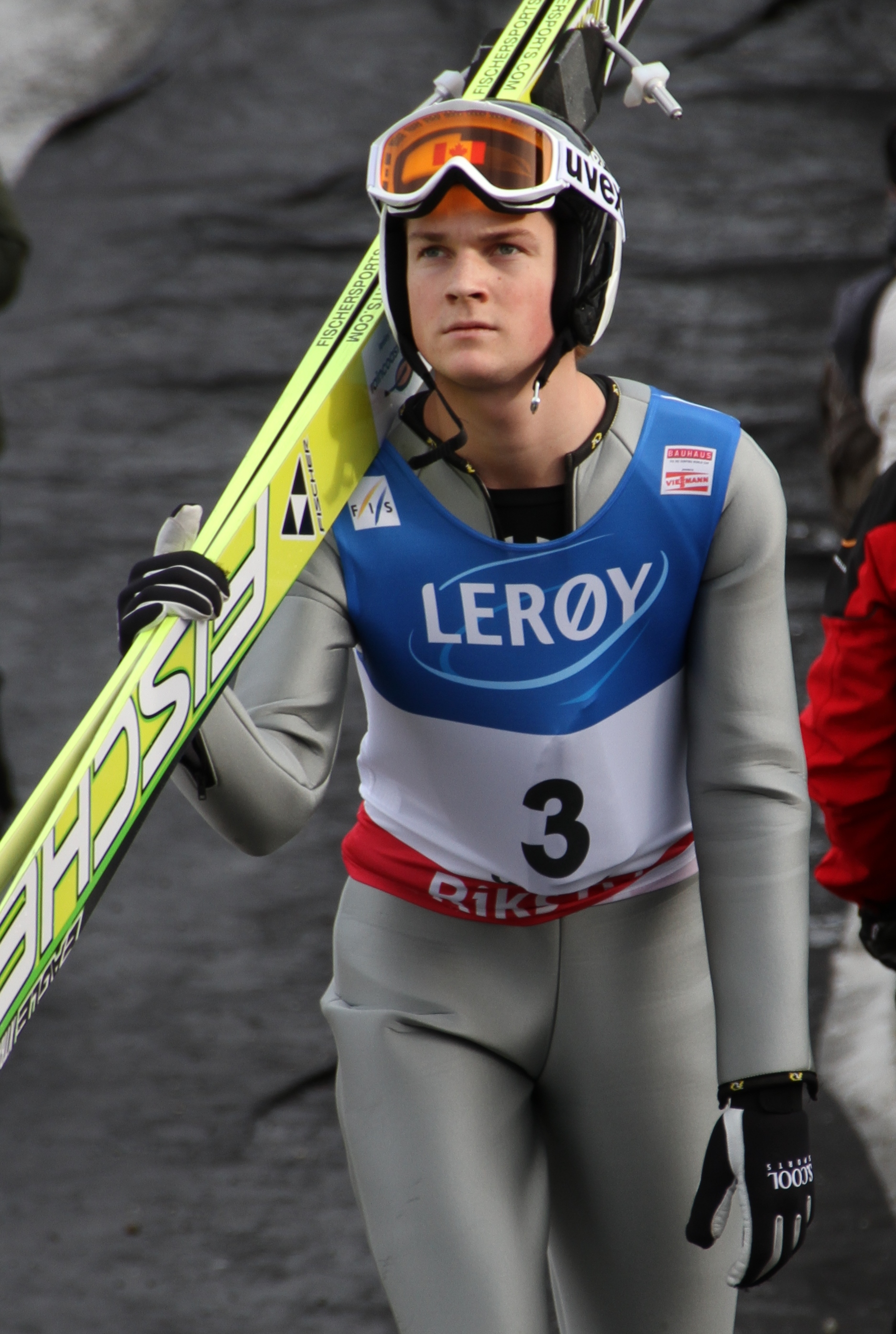 Holmenkollen, Oslo. FIS World Cup Ski Jumping, first round. March 11, 2012. This was the third last WC tournament of the season.